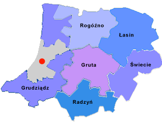 Powiat grudziądzki